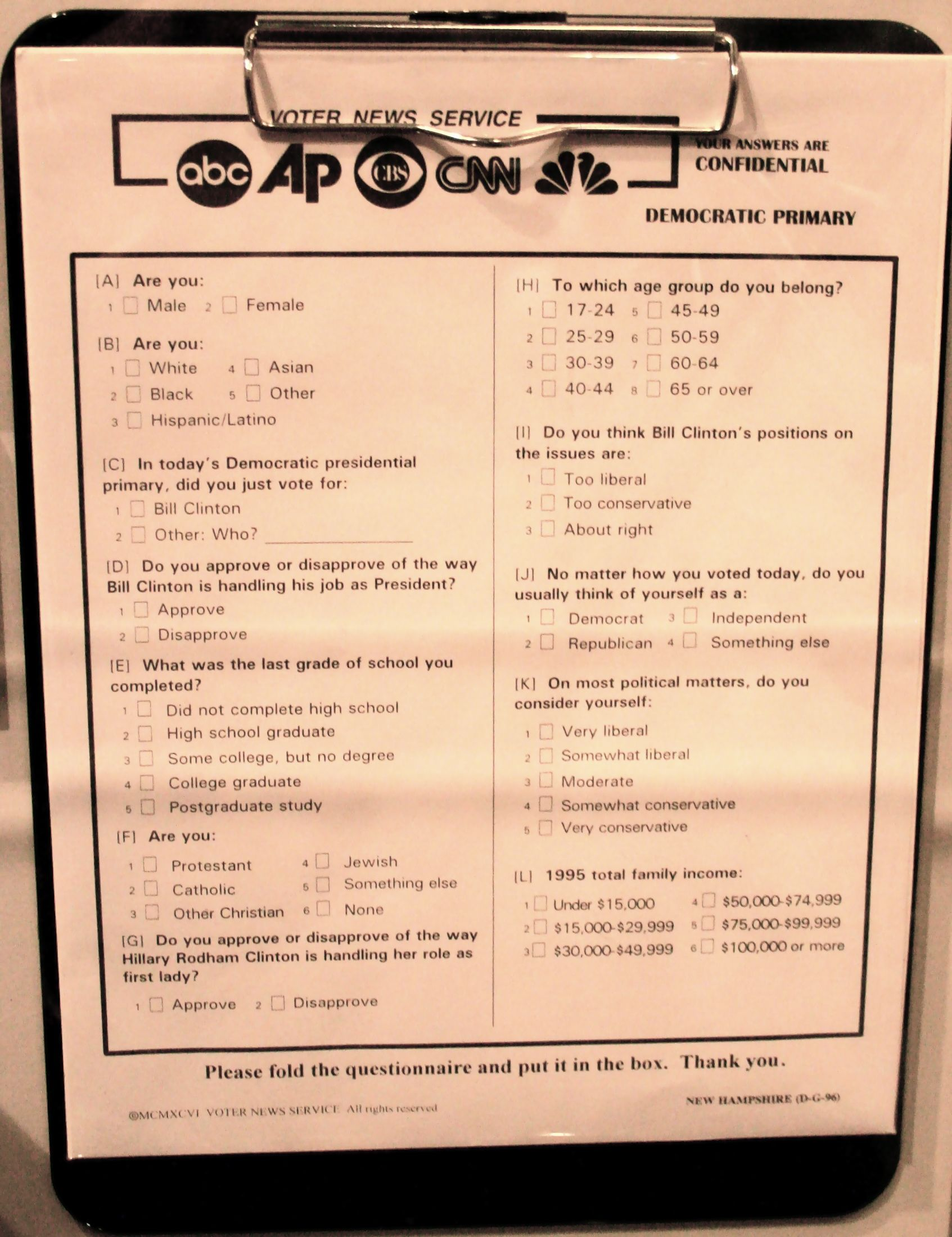 voter polling sheet on display at the Smithsonian National Museum of American History in the American Presidency exhibit